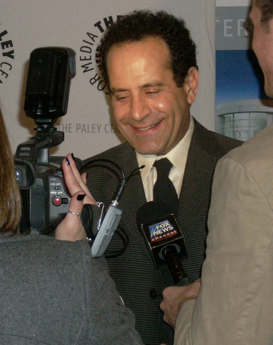 "Monk: 100 Episodes and Counting..." - Paley Center for Media, Dec. 2, 2008